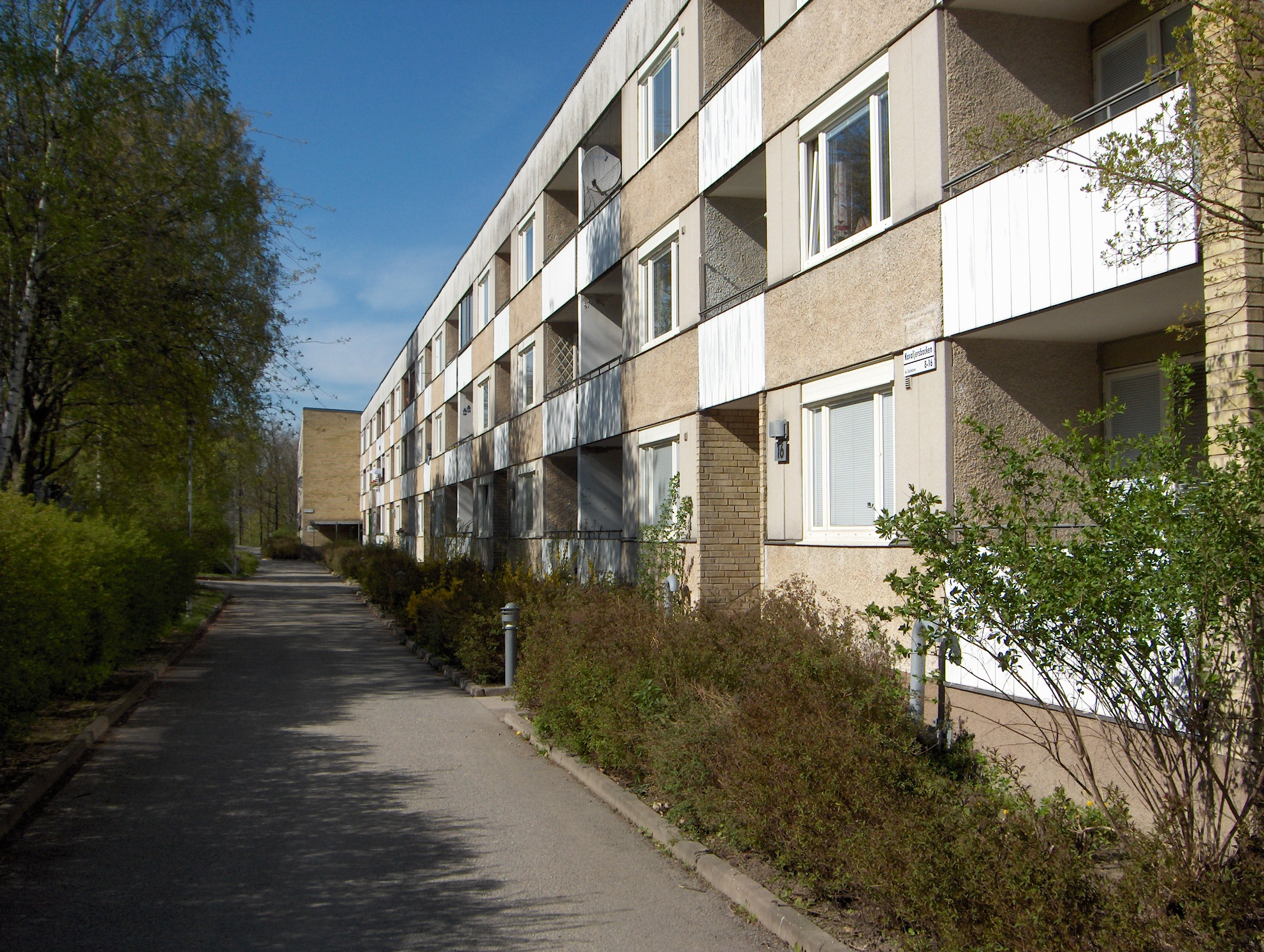 Typical residential block in Ör, Sundbyberg municipality, Sweden. This house is located at Kavaljersbacken street.